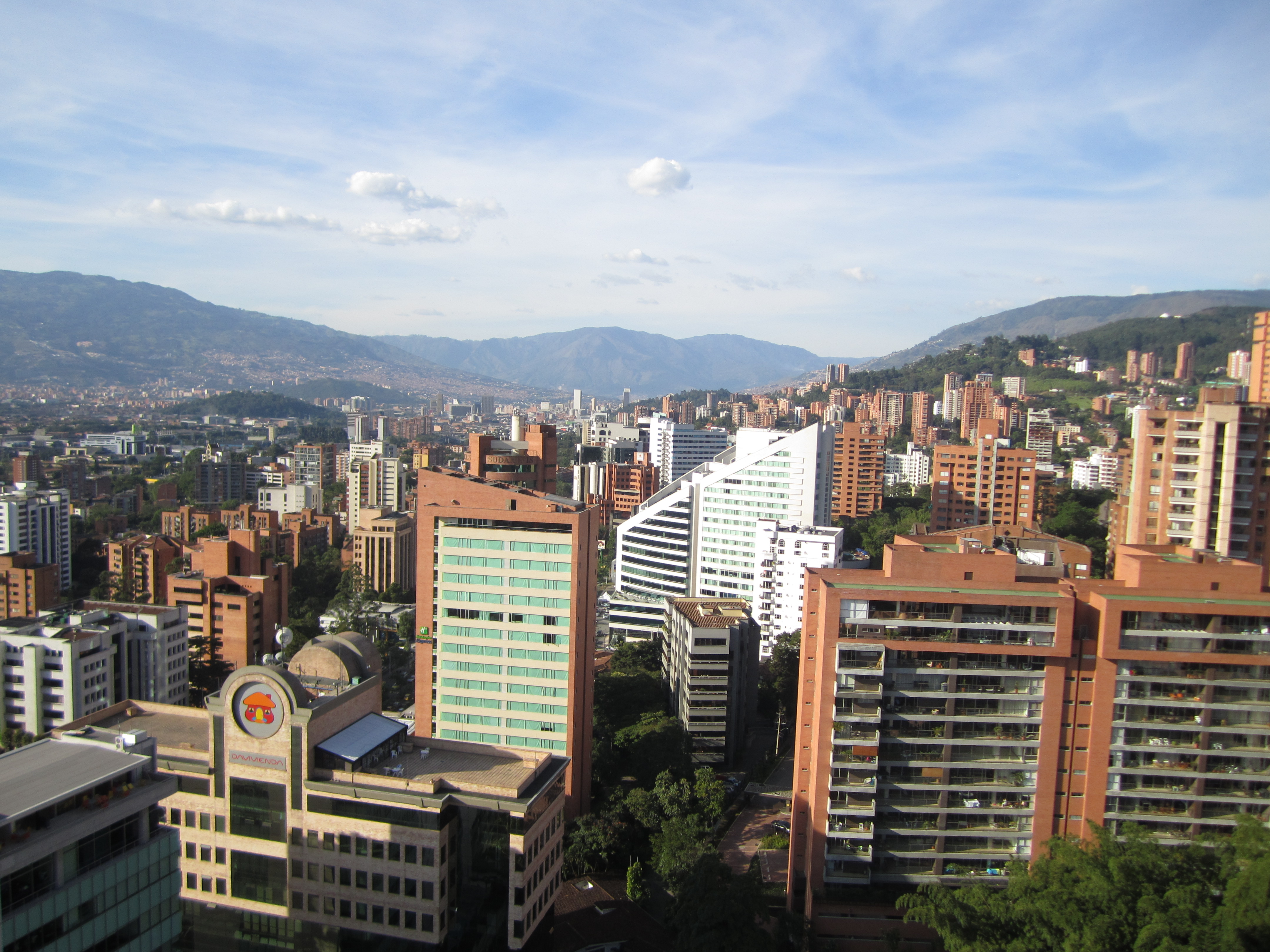 Medellín milla de oro